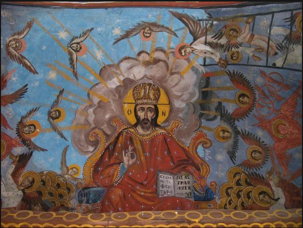 Saint Demetrius Church in Mesolouri Fresco